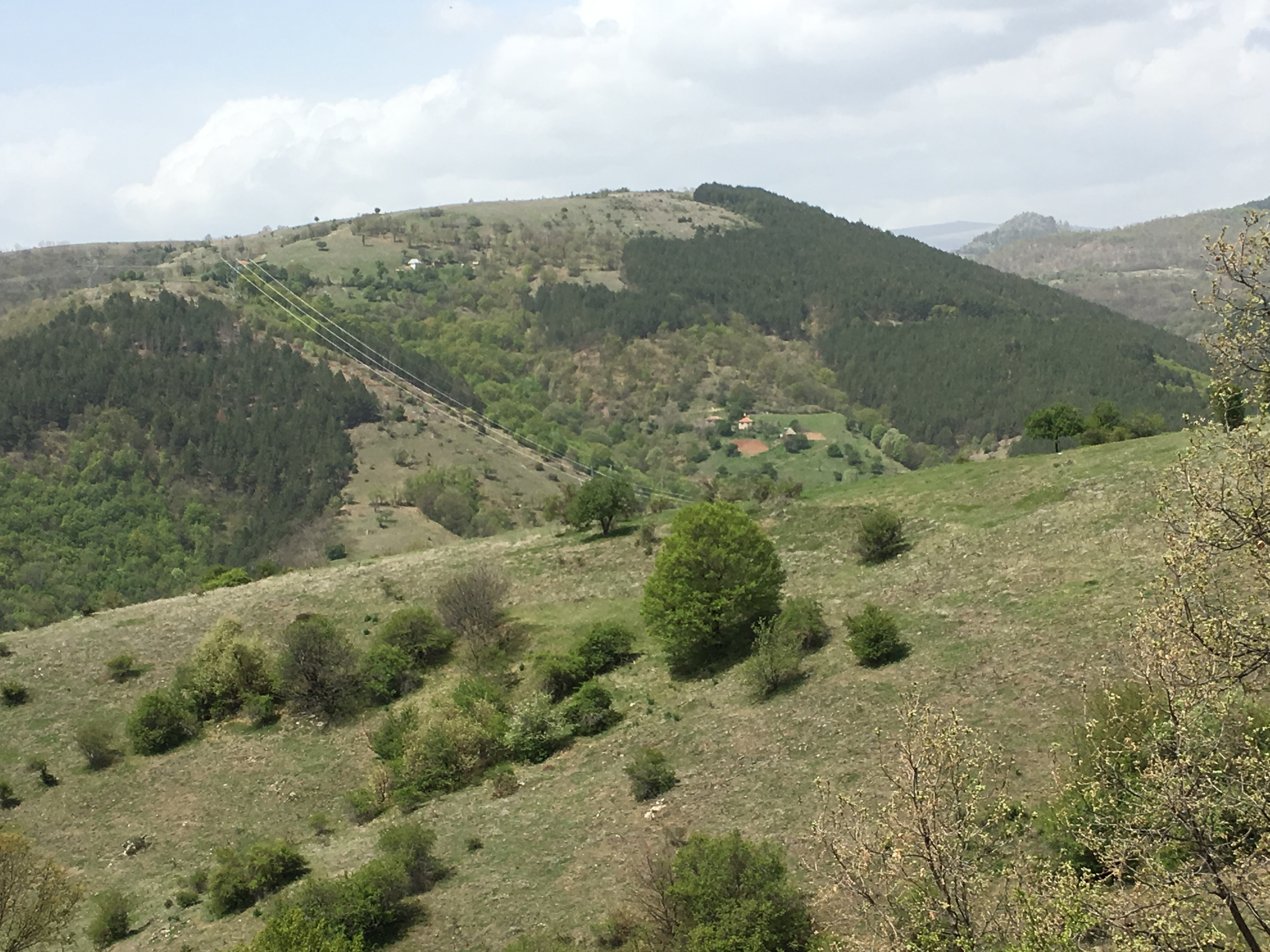 A view of the village of Lozanovo